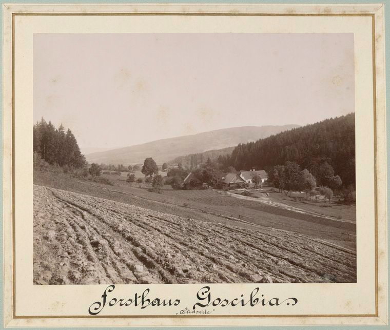 Forester's lodge in Goscibia